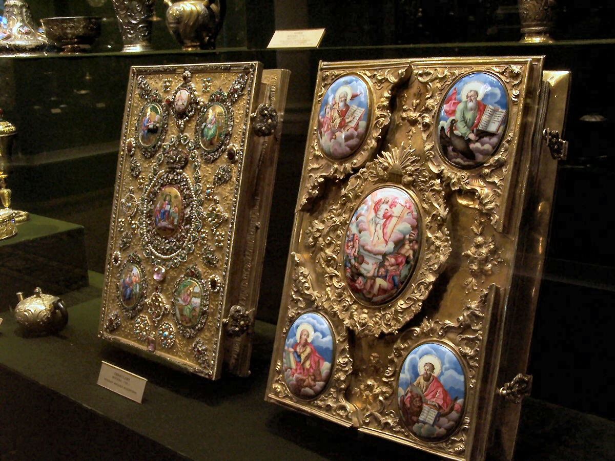 Exhibits in the Armoury of the Moscow Kremlin in 2004, photograph by Dr. Graham Beards